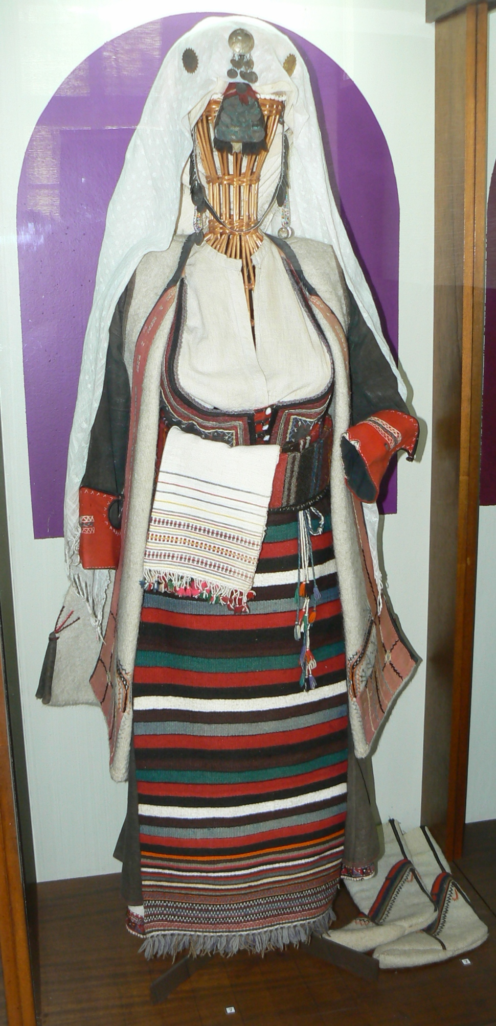 Traditional female costume from village Lozovo, Burgas ethnographic museum